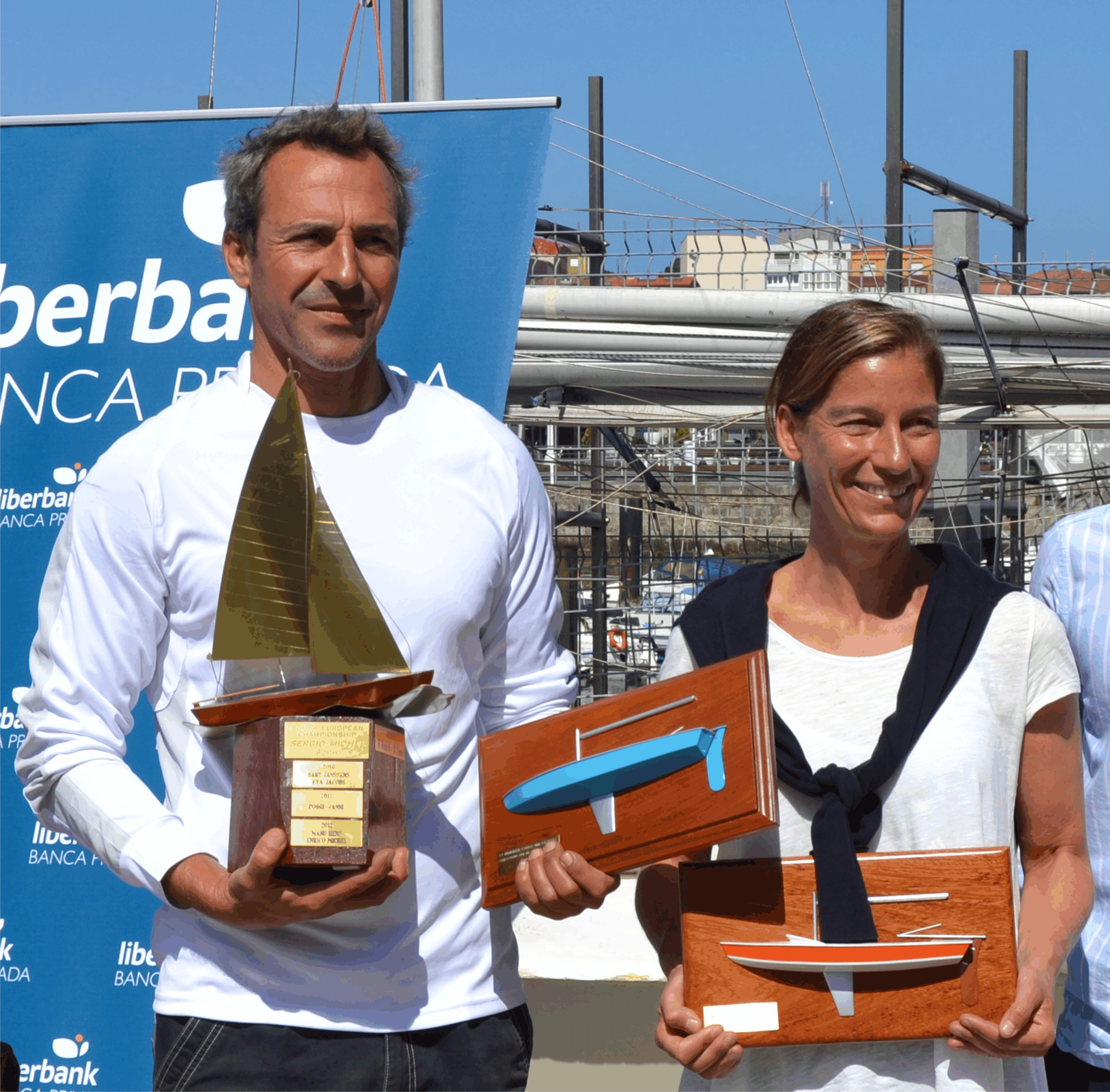 Pedro Barreto and Sofia Barreto, snipe south european champions in 2014 holding the Sergio Michel Perpetual Trophy